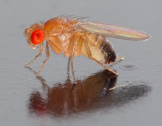 This image shows a 0.1 x 0.03 inch (2.5 x 0.8 mm) small male Drosophila melanogaster fly.